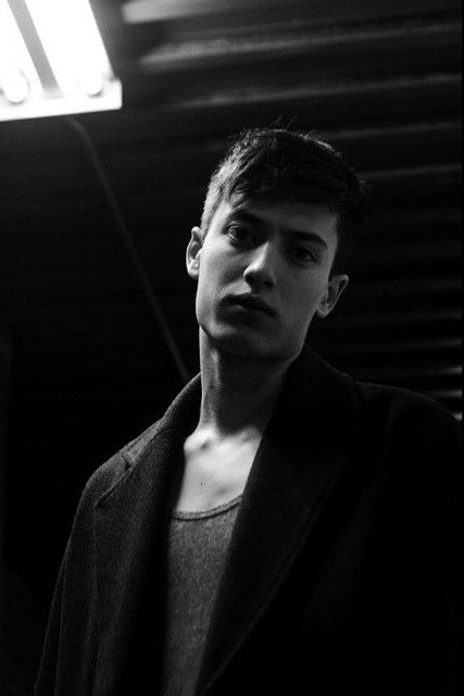 The musician Jonathon Lei Ming, also known as Eden, in Los Angeles during his tour of April 2016.